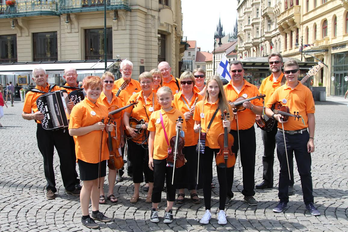 Ingå Spelmansgille i Prag sommaren 2014